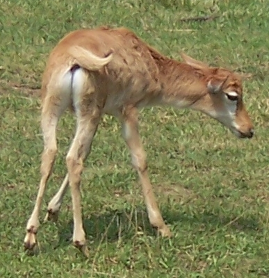 Baby Bontebok at Binder Park Zoo.